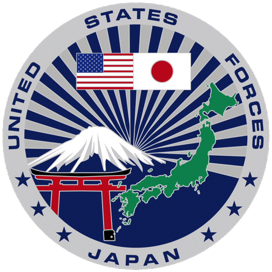 United States Forces, Japan Logo